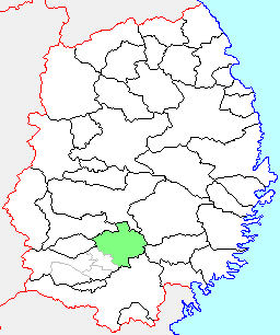 map of former Esashi City, Iwate Prefecture, Japan